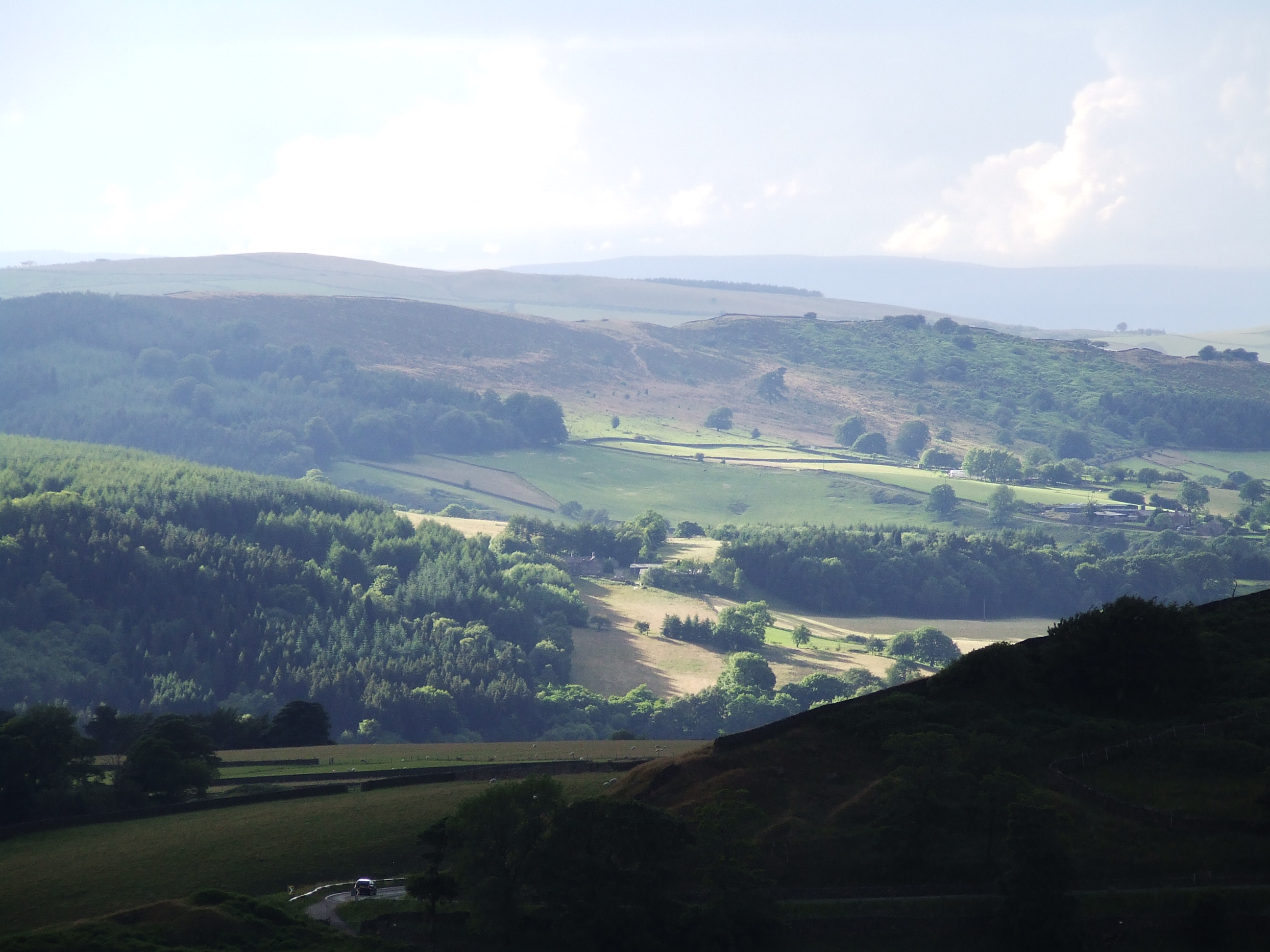 The Goyt Valley in Derbyshire UK looking N.W. from approx UK map reference SK030752. The A5004 (foreground) is descending the Goyt Valley.